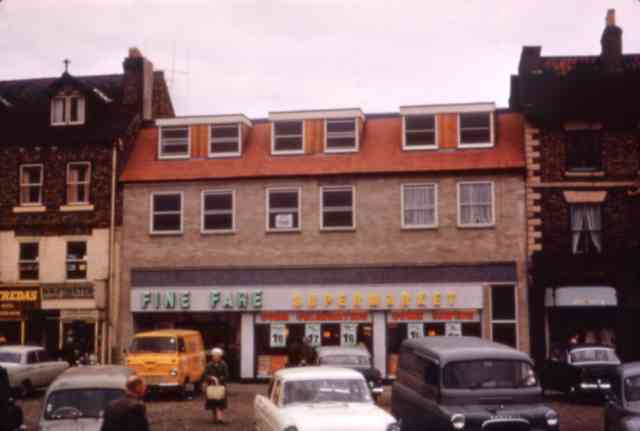 Supermarket in Thirsk Market Place. The photograph was taken when Fine Fare was still extant